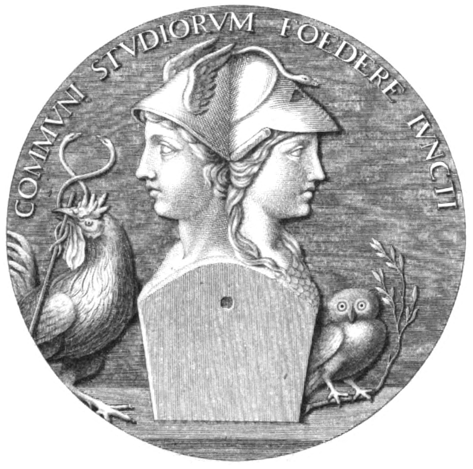 A scanned engraving from the book L'Ermatena (Hermathena), with the inscription communi studiorum foedere iuncti (community studies covenant united). The image depicts a janus-like bust of Hermes and Athena. On the left is a cock and caduceus (symbols of Hermes), on the right is an owl and olive branch (symbols of Athena).